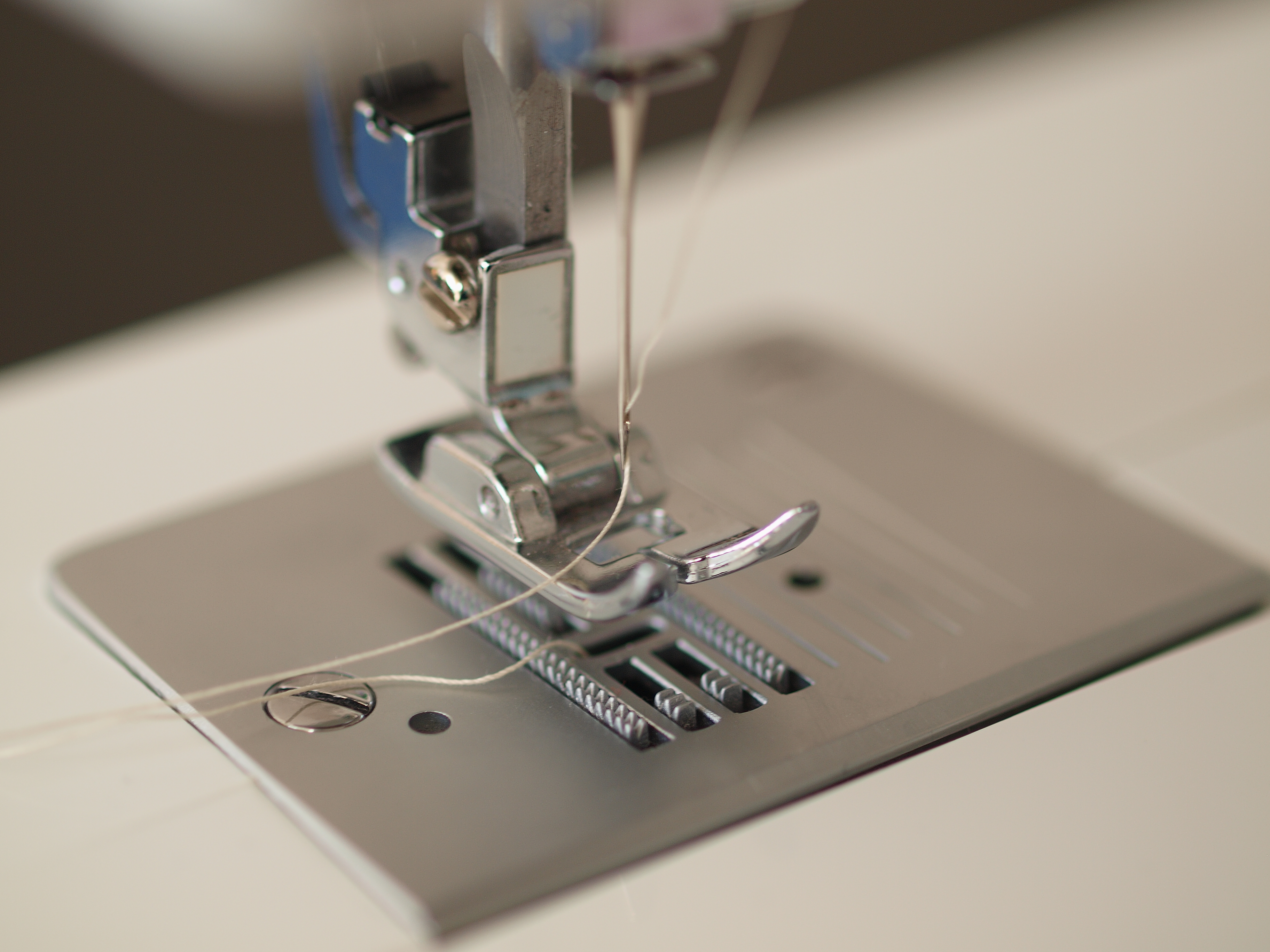 A threaded sewing machine ready to sew, showing two threads, one below from the bobbin, one above from the threaded needle on the foot